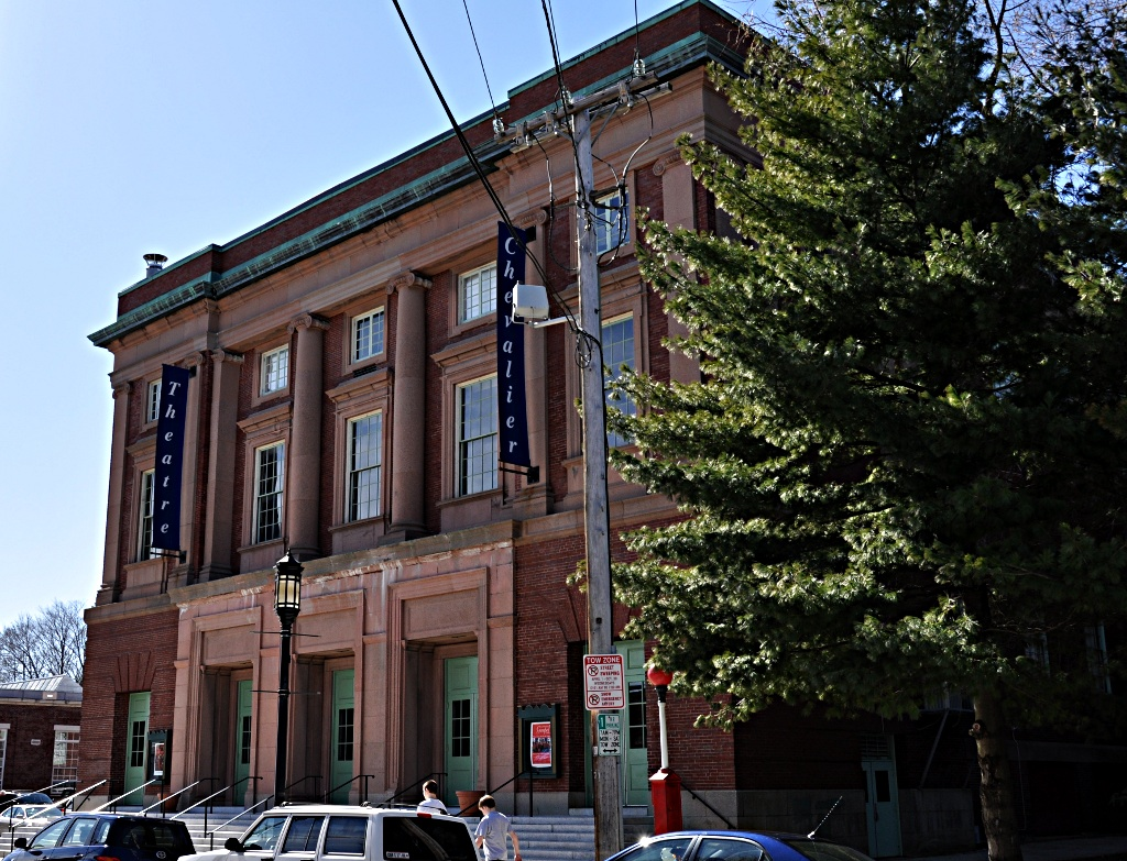 A photograph of one wing of the Old Medford High School in Medford, Massachusetts.